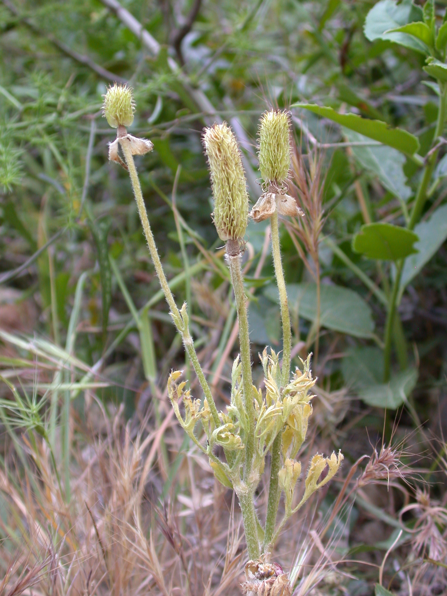 fruits of Ranunculus asiaticus L. (נורית אסיה), Mount Carmel, Israel, April 2008.